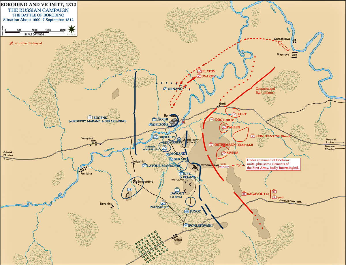 Portrayal of troop positions on the 7th September 1812 16:00